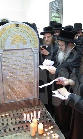 דער סאטמארער רבי ביים ציון פין זיין זיידען דער ייטב לב